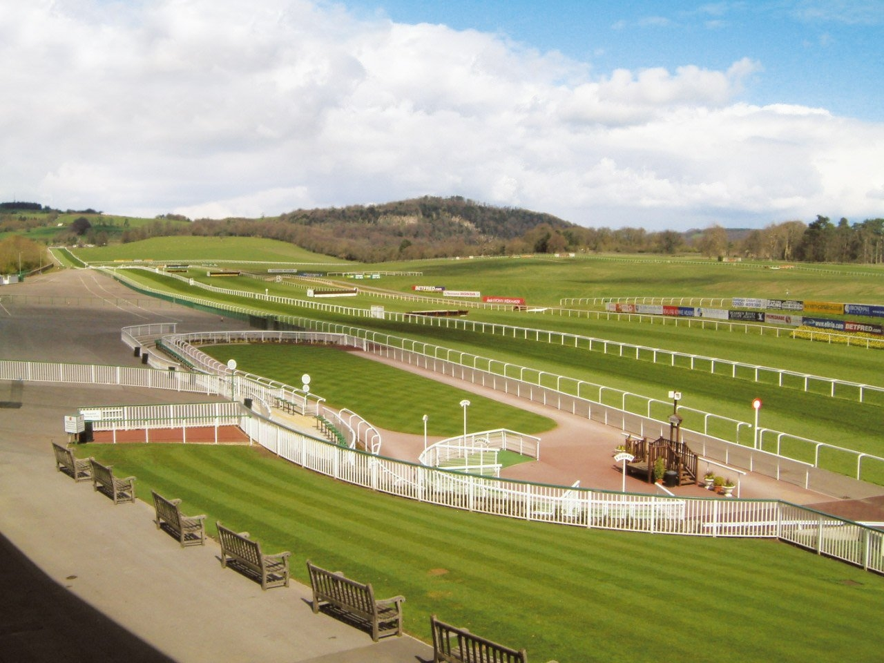 Photographic view of Chepstow racecourse, showing the undulations of the track and the wooded backdrop